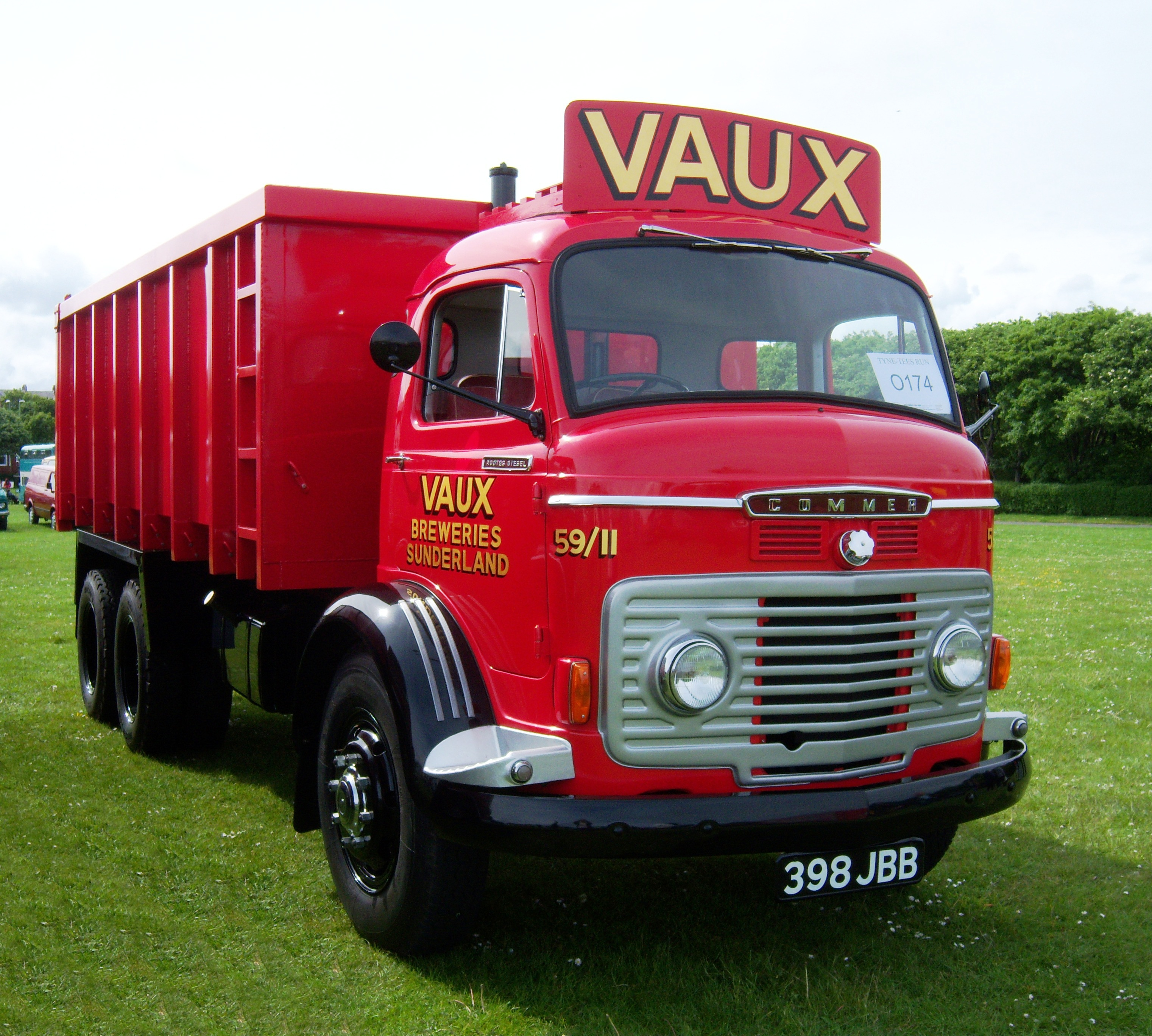 A 1959 Commer QX Unipower (reg. 398 JBB) rigid 6 wheeled tipper lorry, pictured at the end of the 2012 HCVS Tyne-Tees Run. It's in the livery of Vaux Breweries.